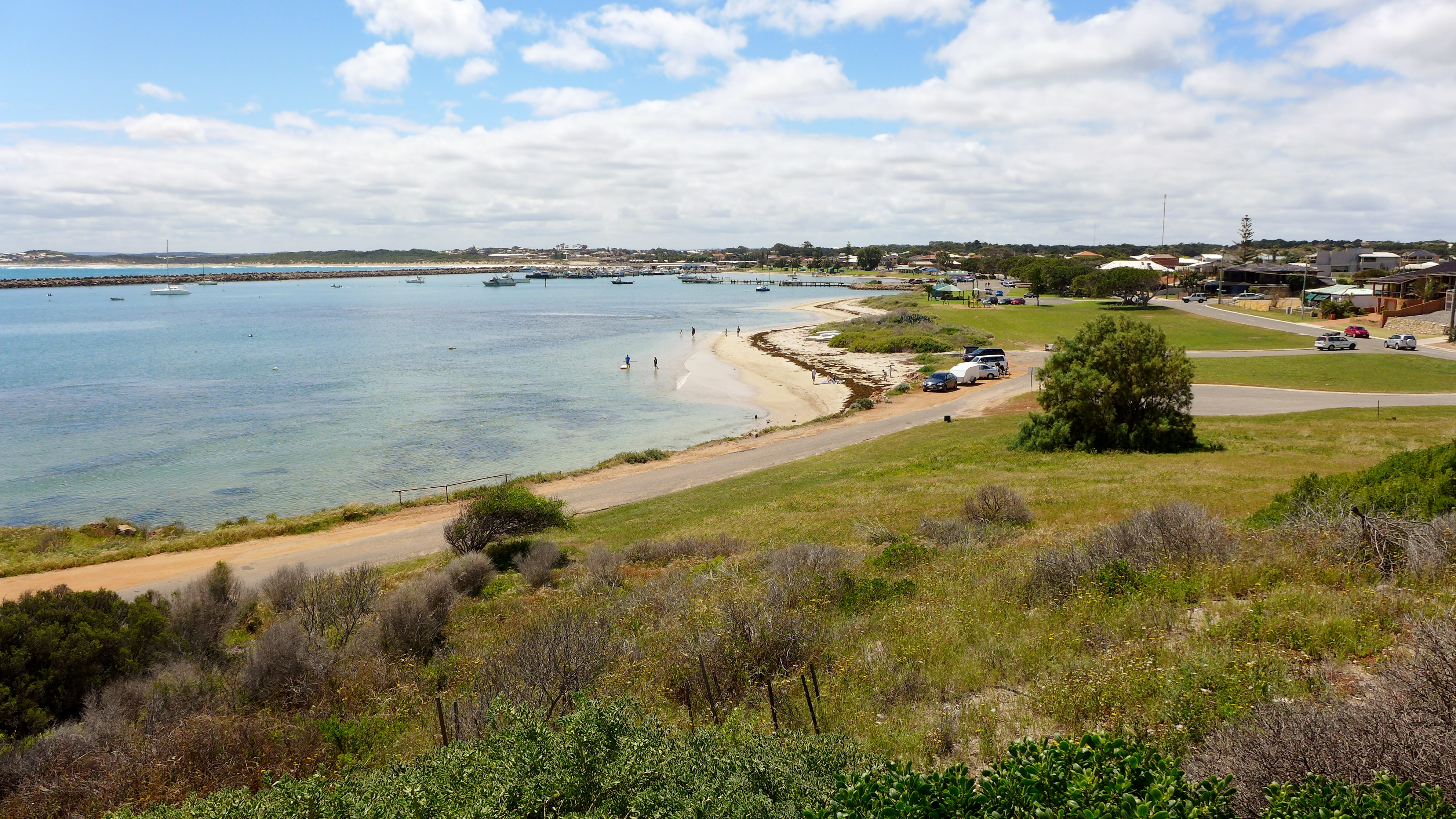 View of the Port Denison Boat Harbour at Port Denison, Western Australia.